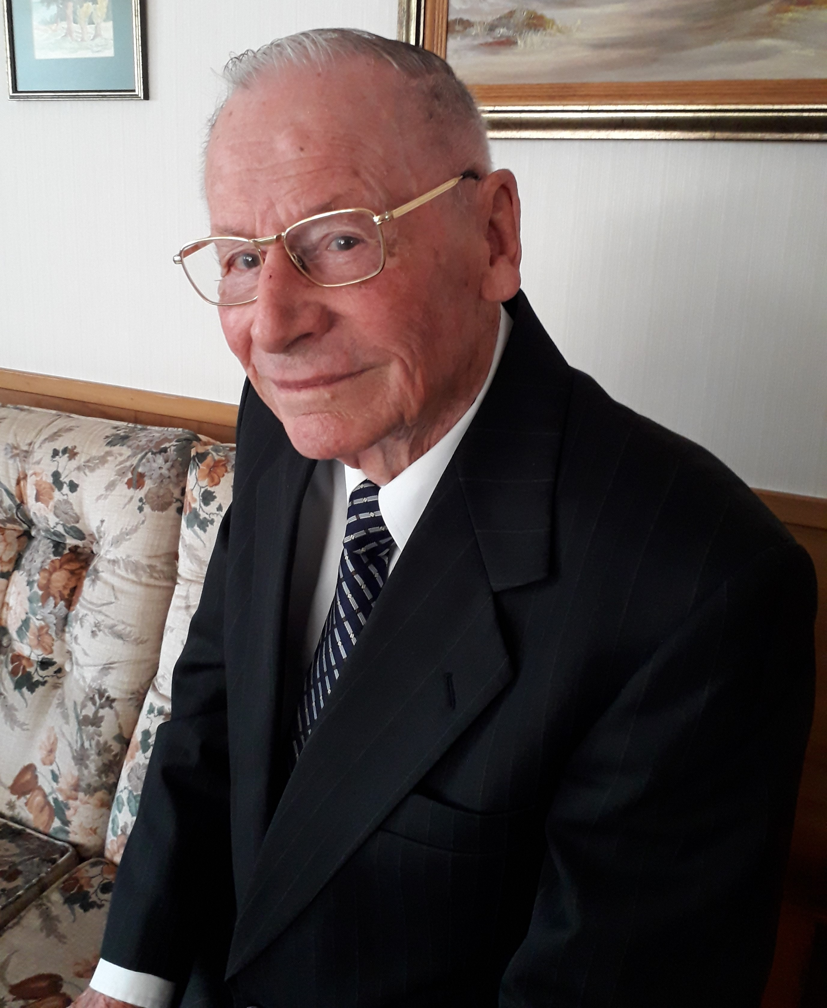 A photo of Sir George Chapman taken in his home